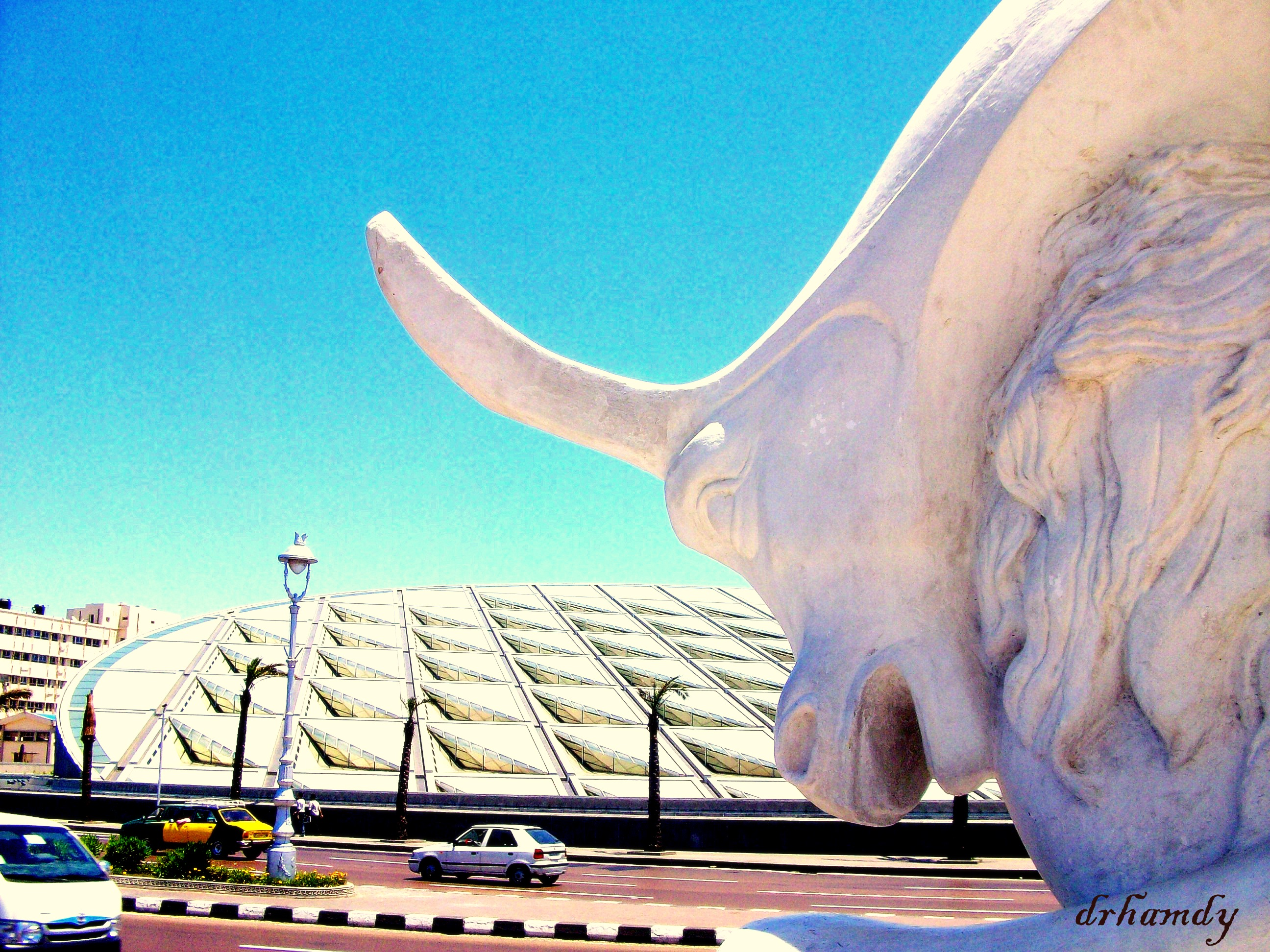 The Bibliotheca Alexandrina as seen from behind a Statue of Poseidon mating with Athena. Alexandria, Egypt.